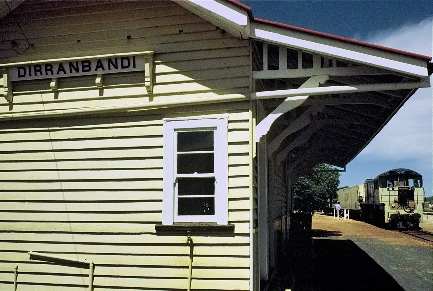 Dirranbandi Station with QR loco 1721 on the Dirranbandi Mail bound for Toowoomba, 13/11/87